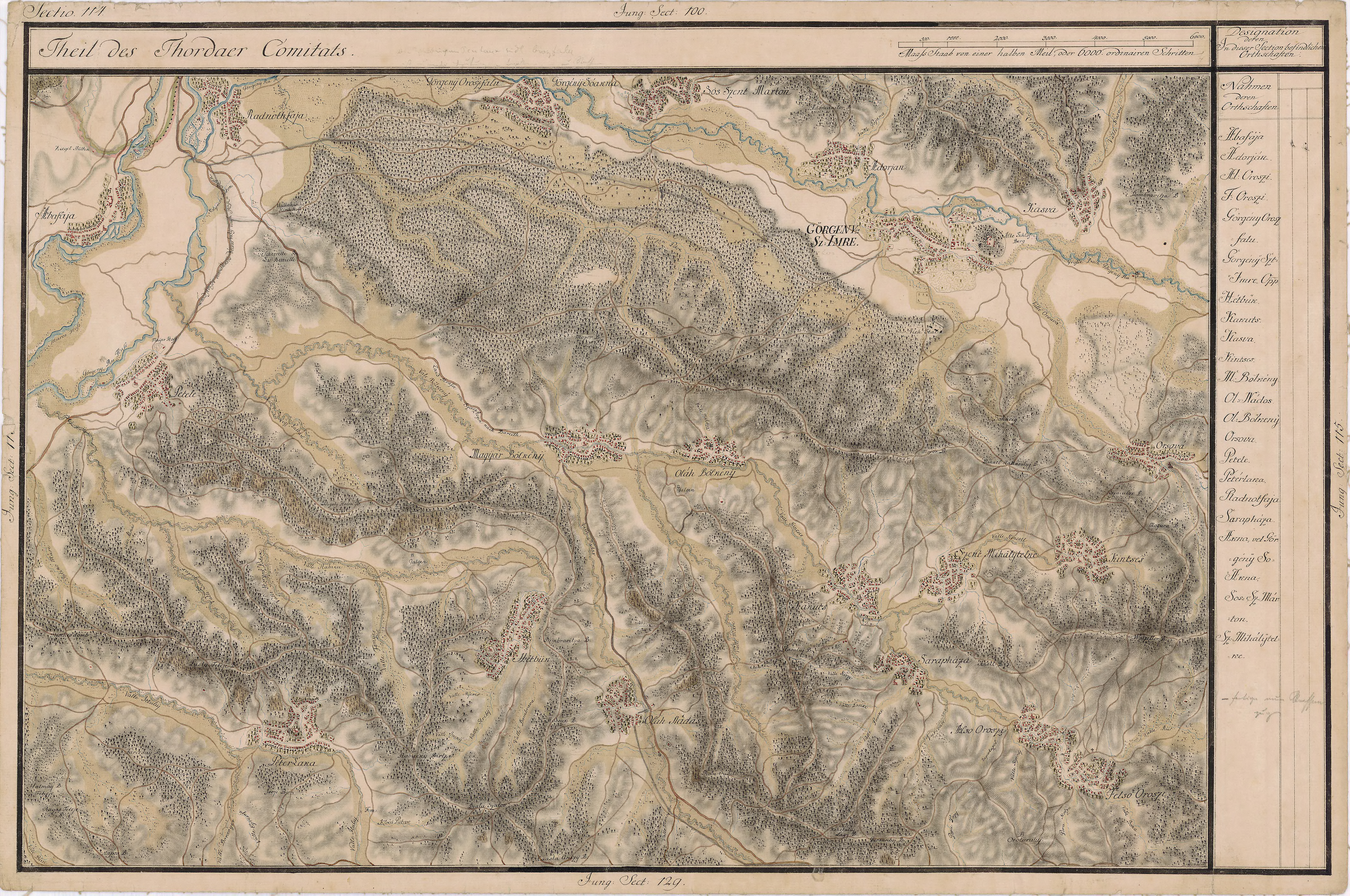 Grand Duchy of Transylvania, 1769-1773. Josephinische Landaufnahme pg.114